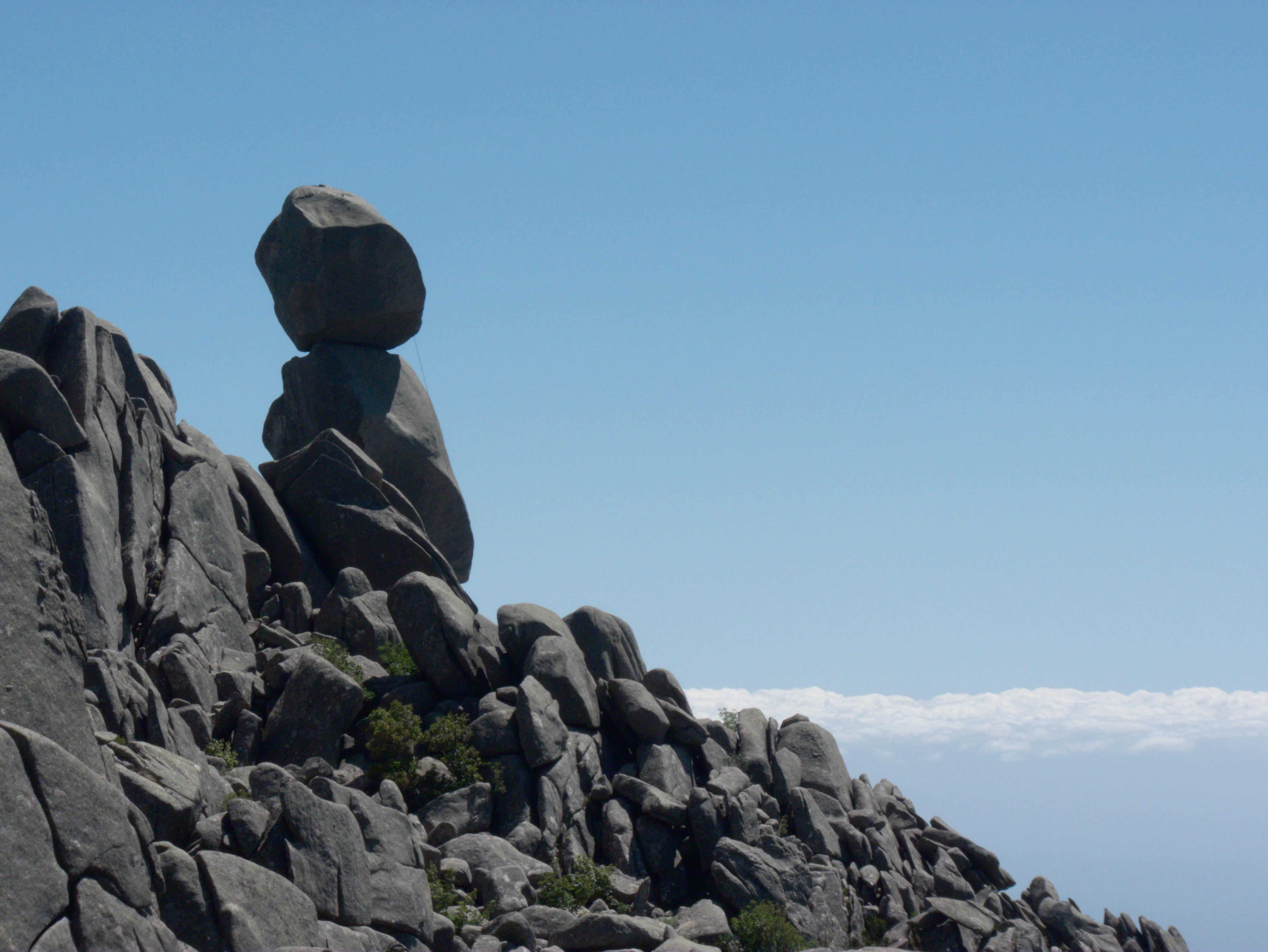 These balanced granite boulders, located 1217 meters above sea level in the Cagna Mountain (Corse-du-Sud), look like a human shape, hence the name "Omu di Cagna" ("Man Of Cagna").